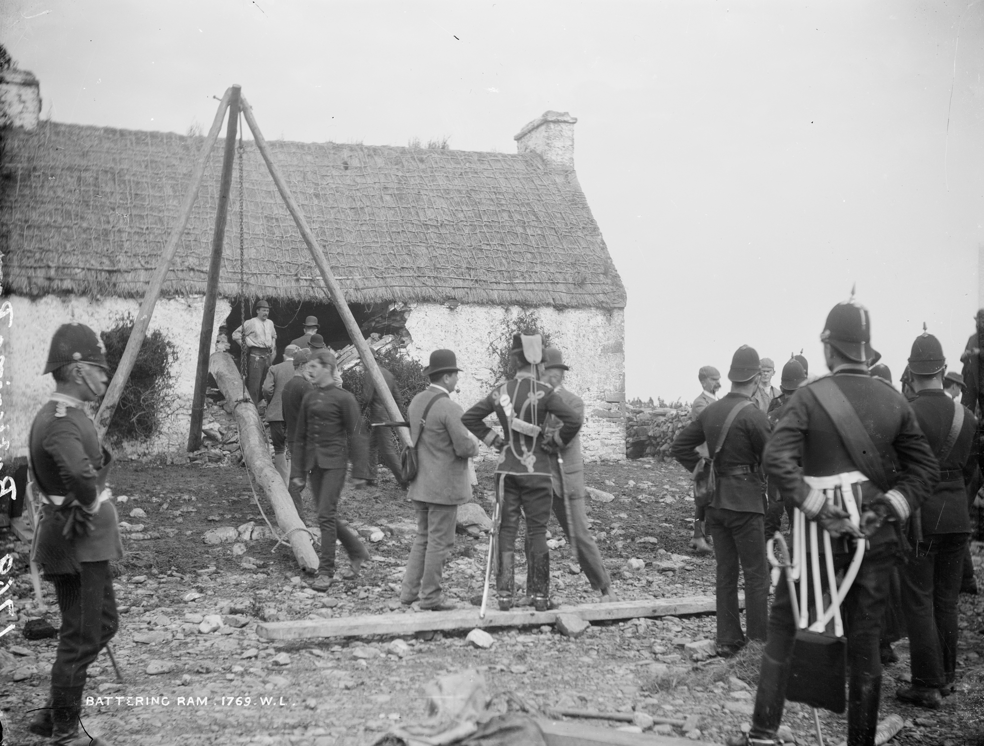 We have a few photographs which we had readied for the Tríd an Lionsa program. We felt that we would not get the opportunity to post them in the normal course, therefore we have decided to post a number of them over the holiday period. We hope you enjoy them and as always we welcome your comments and observations. Photographer: Robert French Collection: The Lawrence Photograph Collection Date Circa July 1888 NLI Ref: L_ROY_01769 You can also view this image, and many thousands of others, on the NLI’s catalogue at